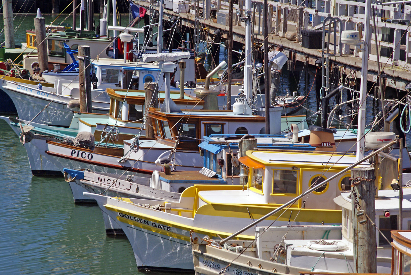 Fishing boats at Fisherman's Warf, San Francisco, taken from Tarantino's Restaurant.